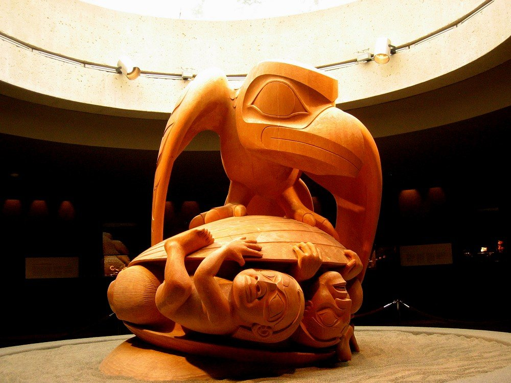 "Raven and the First Men" from Bill Reid - Permanently installed at the Museum of Anthropology - University of British Columbia, Vancouver